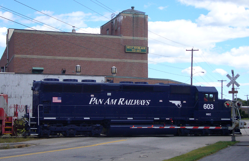 A Pan Am Railways EMD SD40-3 locomotive in Portland, Maine.